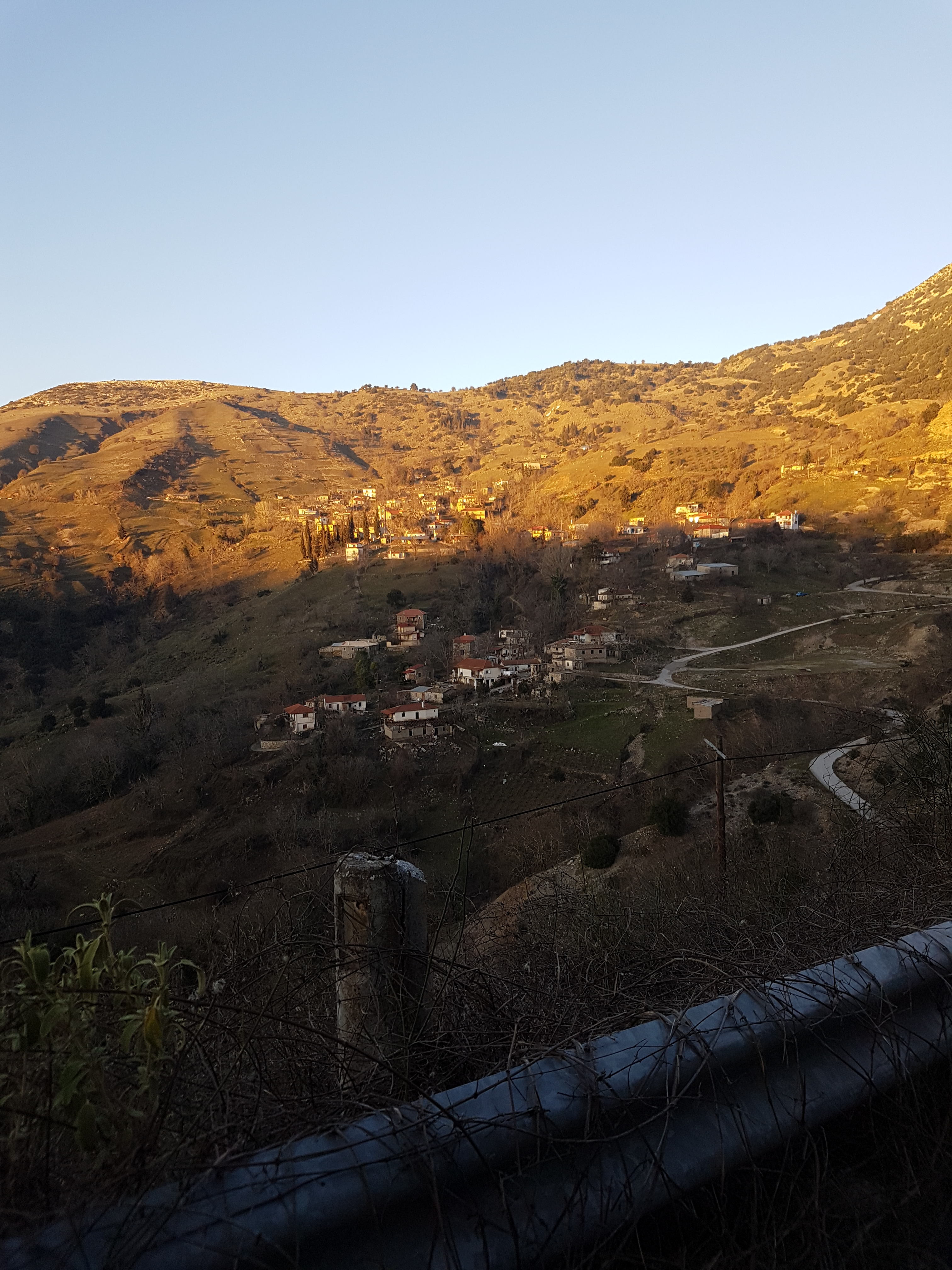 Petsakoi Achaias